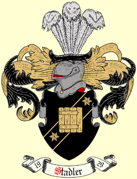 emblem